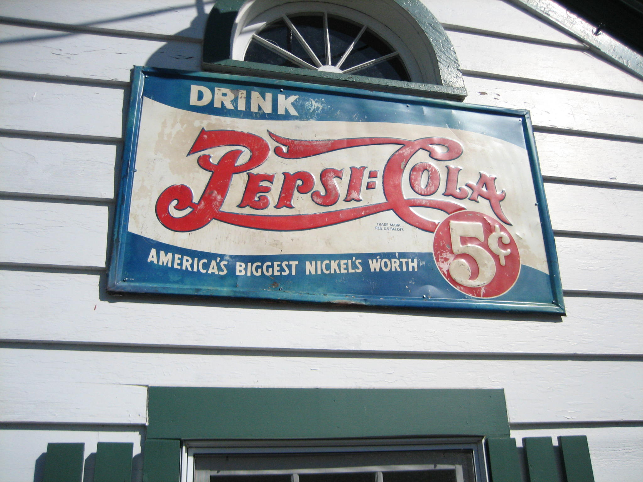 Ambler's Texaco Gas Station, Dwight, Illinois, USA, along historic U.S. Route 66. Old Pepsi advertisement.